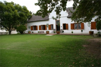 Jaco van Tonder This media shows a South African Protected Site with SAHRA file reference 9/2/094/0024.